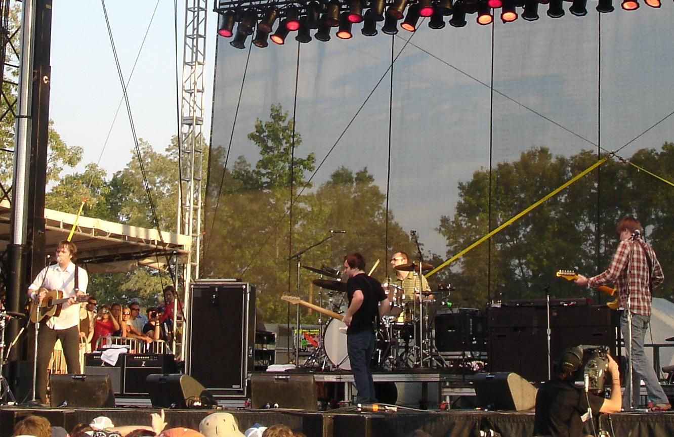 Death Cab for Cutie performing at the Bonnaroo Music Festival in 2006